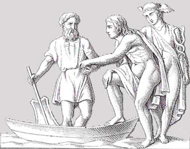 Charon, the ferryman of the dead, receives a coin from a soul guided by Hermes (Mercury) in his role as psychopomp